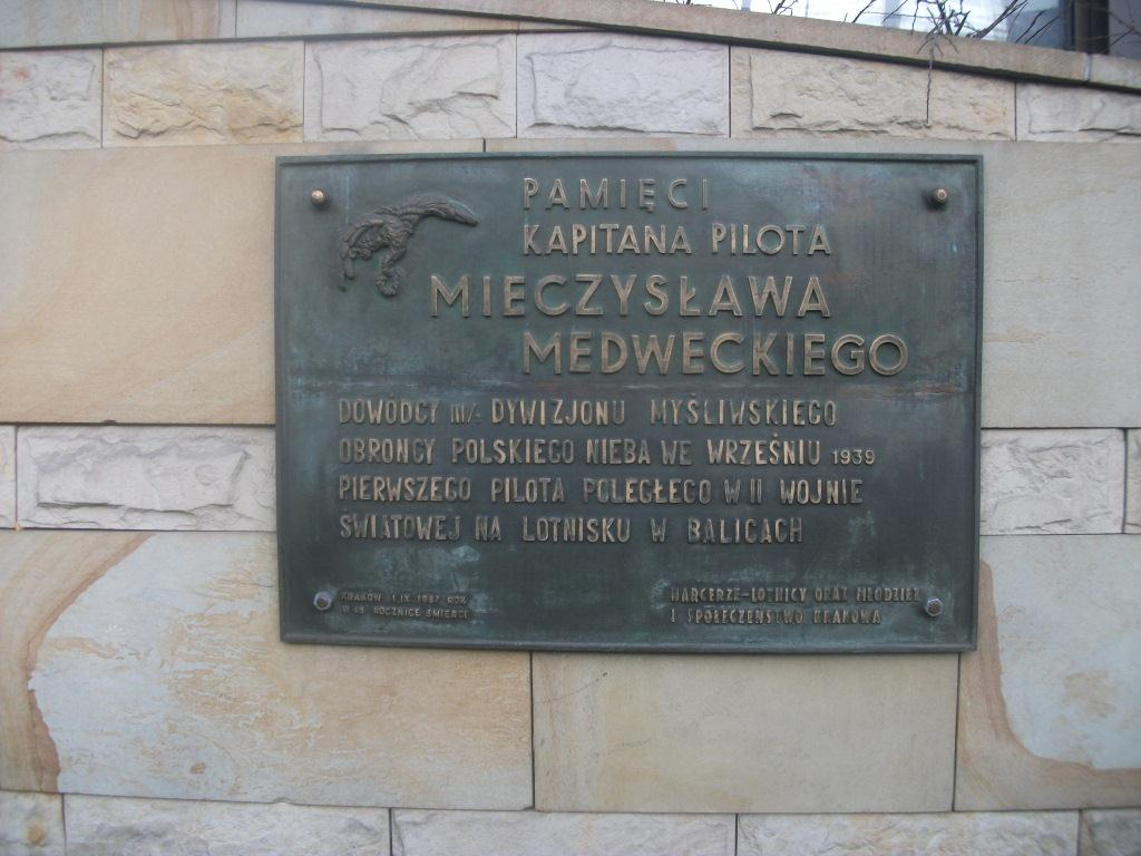 Memorial desk